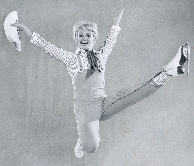 1968 Ice Capades Swedish Skating Champion Ann Margaret Frei Press Photo